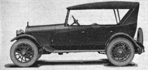 The image is of a Stanwood Six automobile from an article on page 10 of the cited journal. From Google Books: Bibliographic information QR code for Automobile Journal Title Automobile Journal, Volume 68 Published 1920 Original from the New York Public Library Digitized May 20, 2011